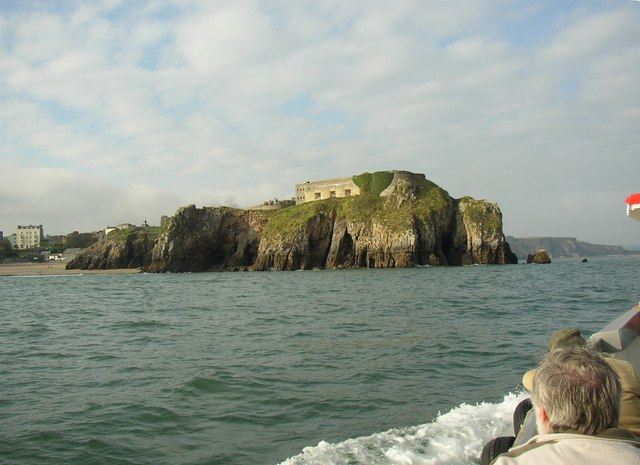 St Catherine's Island, Tenby Taken from the ferry to Caldey Island. The building on the island was a fort built in 1868-70 to defend Milford Haven from a French threat that came to naught. It was sold to the Windsor Richards family in 1914, and was converted to a house. The last use was as a zoo. It has been derelict for years, as the asking price is too great considering the work needed for refurbishment. The lack of a bridge to the mainland has always been a deterrent.